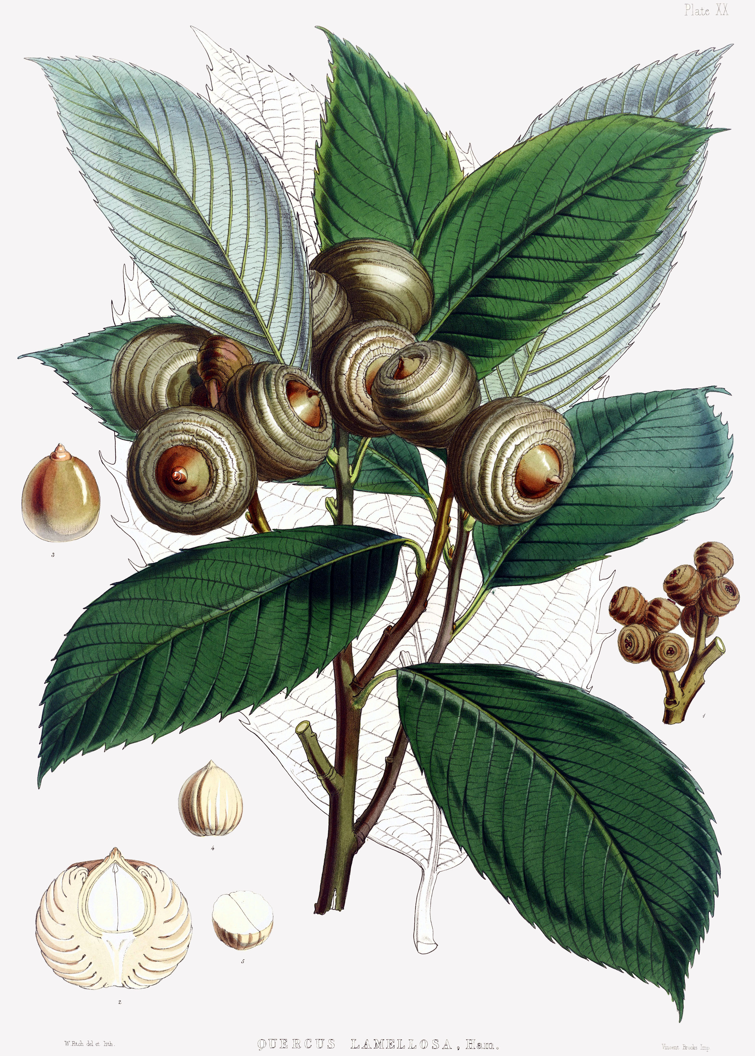 Quercus lamellosa (syn. Cyclobalanopsis lamellosa). "Fig. 1. Young acorns. 2. An old acorn, cut vertically. 3. Gland. 4. Seed. 5. Transverse section of cotyledons:—all of the natural size."